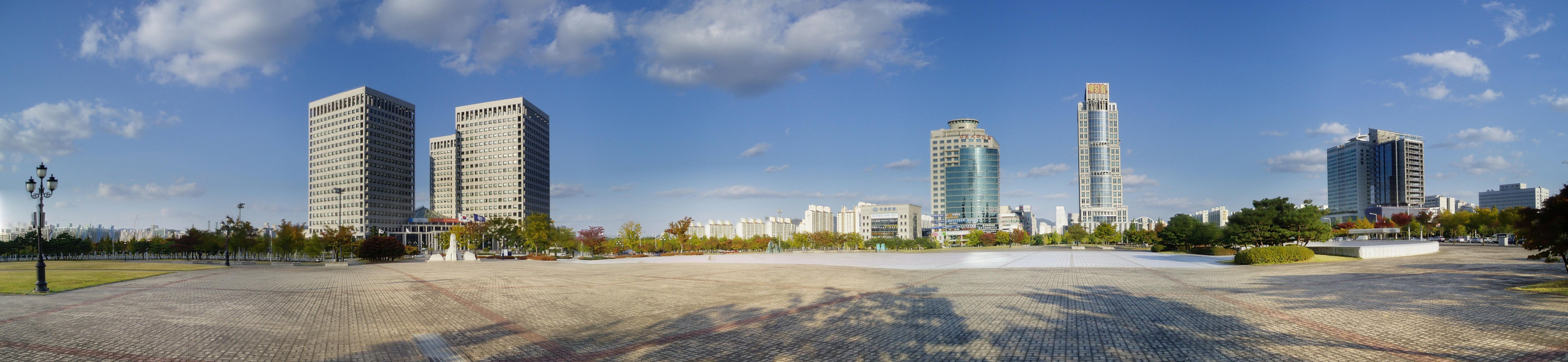 Daejeon Government Complex